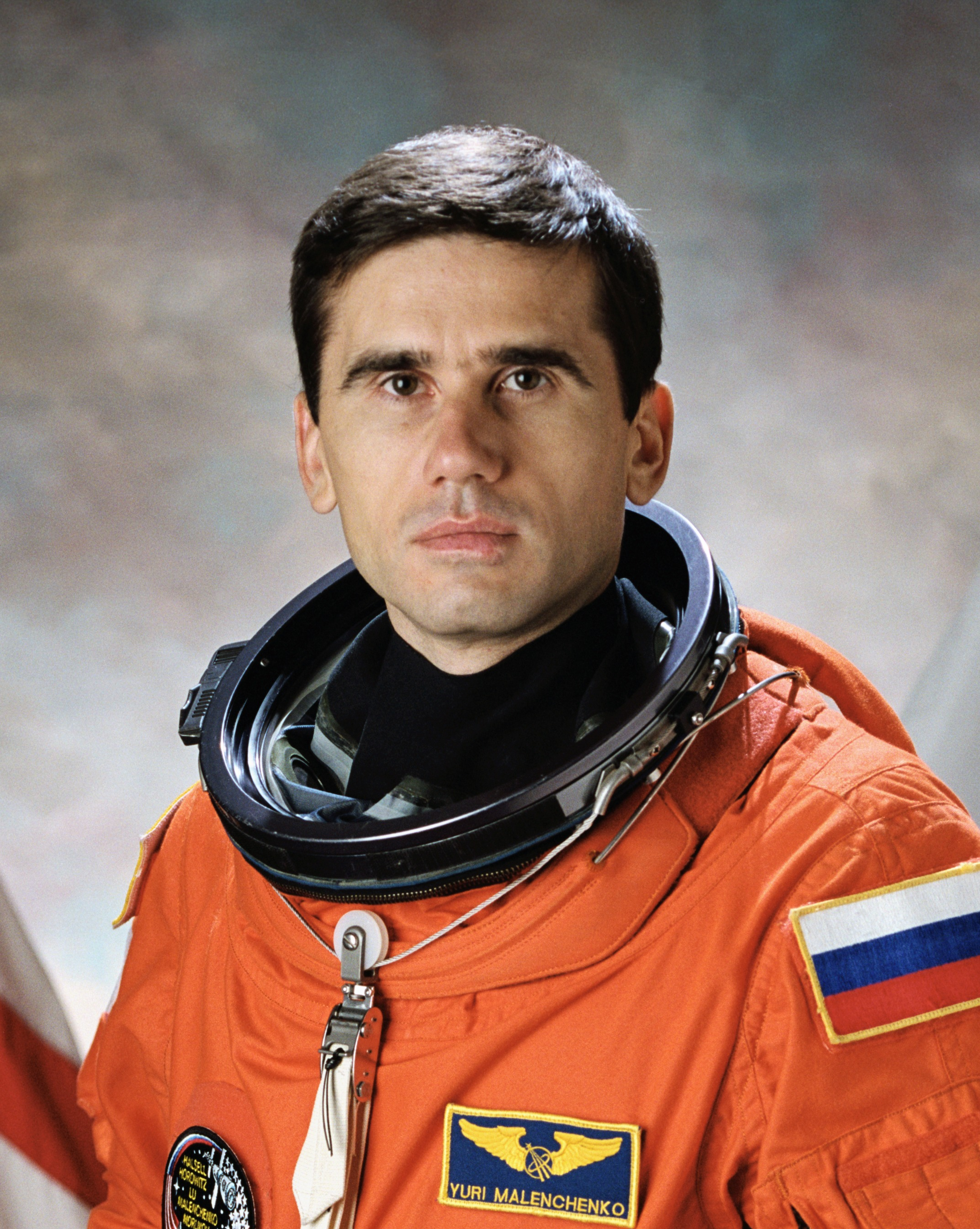 Cosmonaut Yuri Ivanovich Malenchenko, representing Rosaviakosmos.